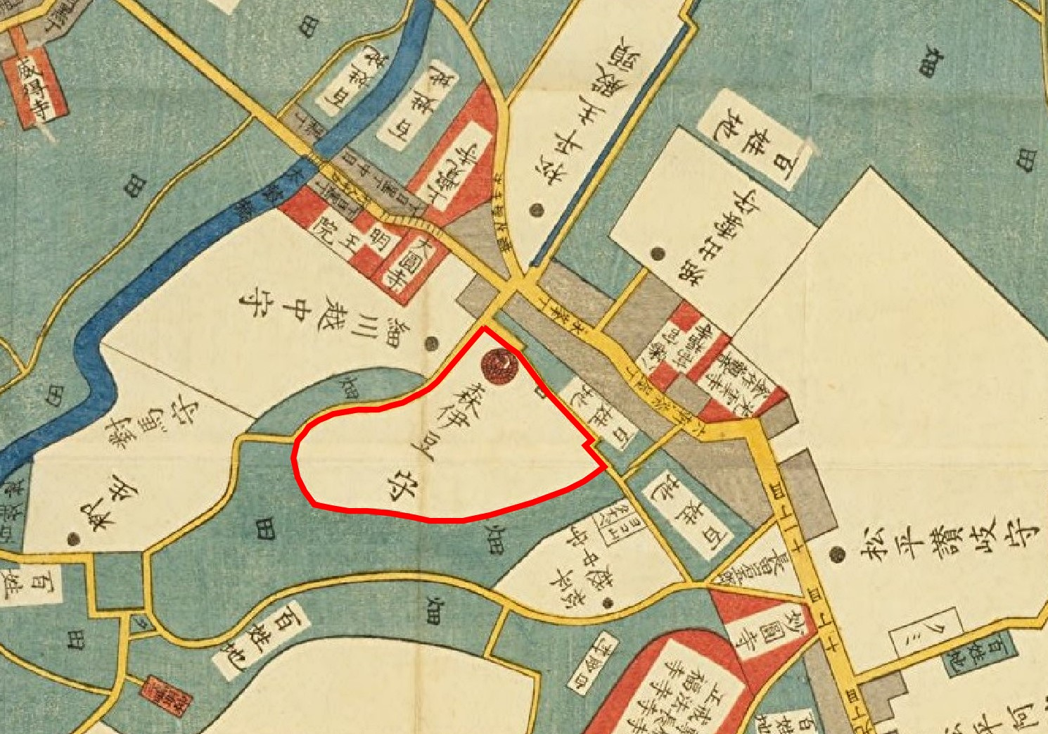 REsidence of Mori clan at Edo